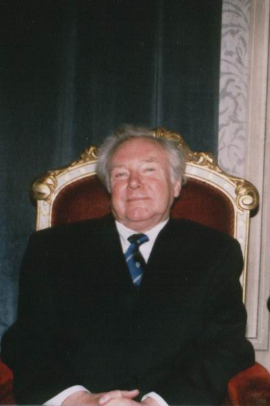 AProfessor lan Watson